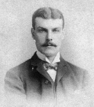 Photo of Stanley Christopherson